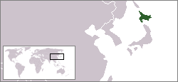 Country locator map for Republic of Ezo